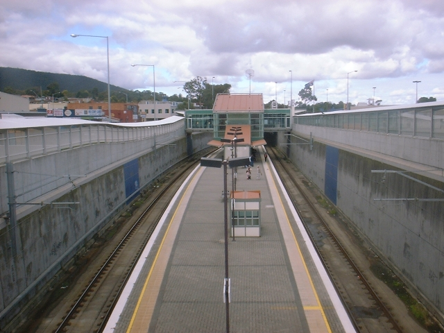 Picture taken myself on 22/4/2006. Anyone can use this image for any reason.